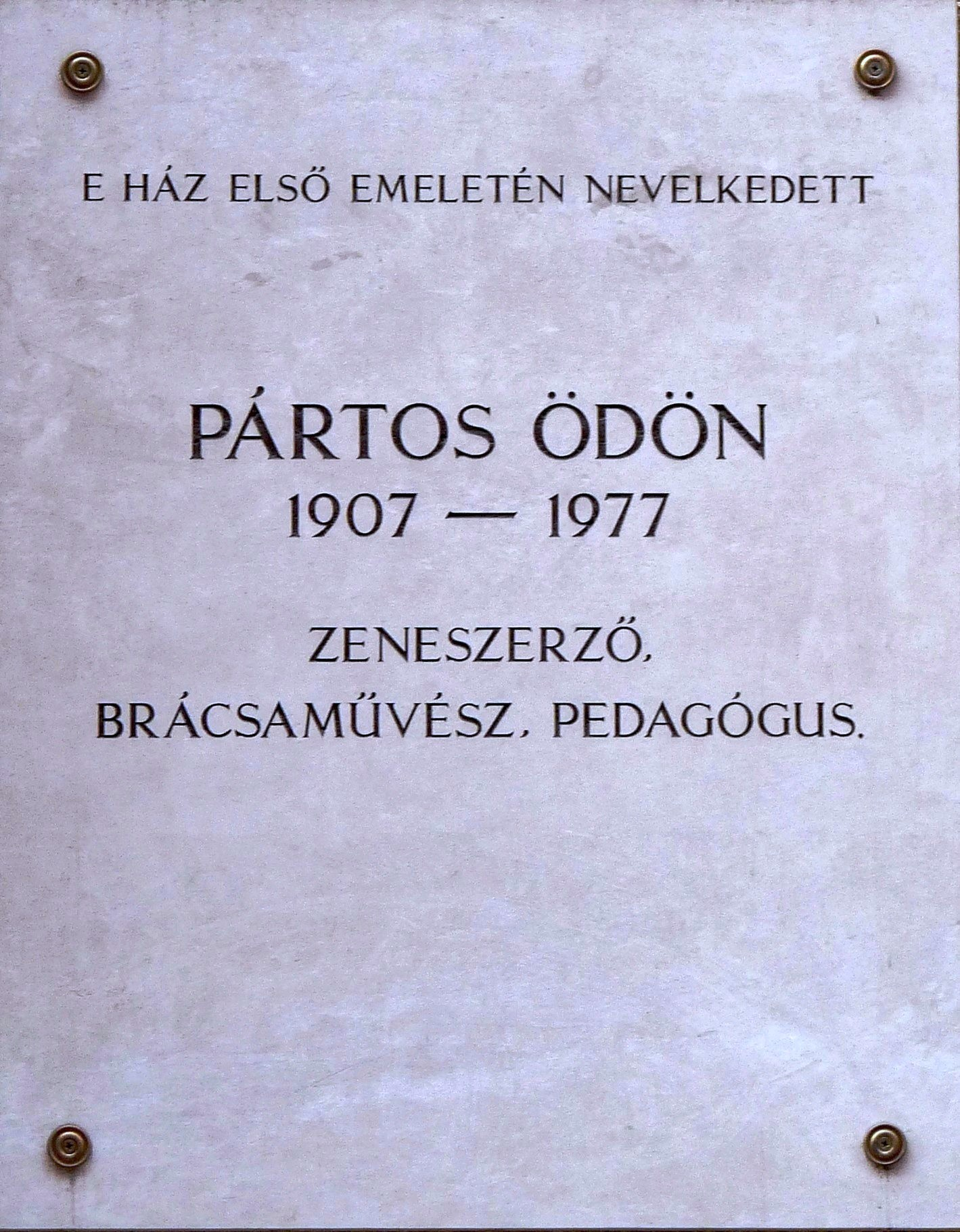 Ödön Pártos commemorative plaque in Budapest District VI, Aradi Street No 22.